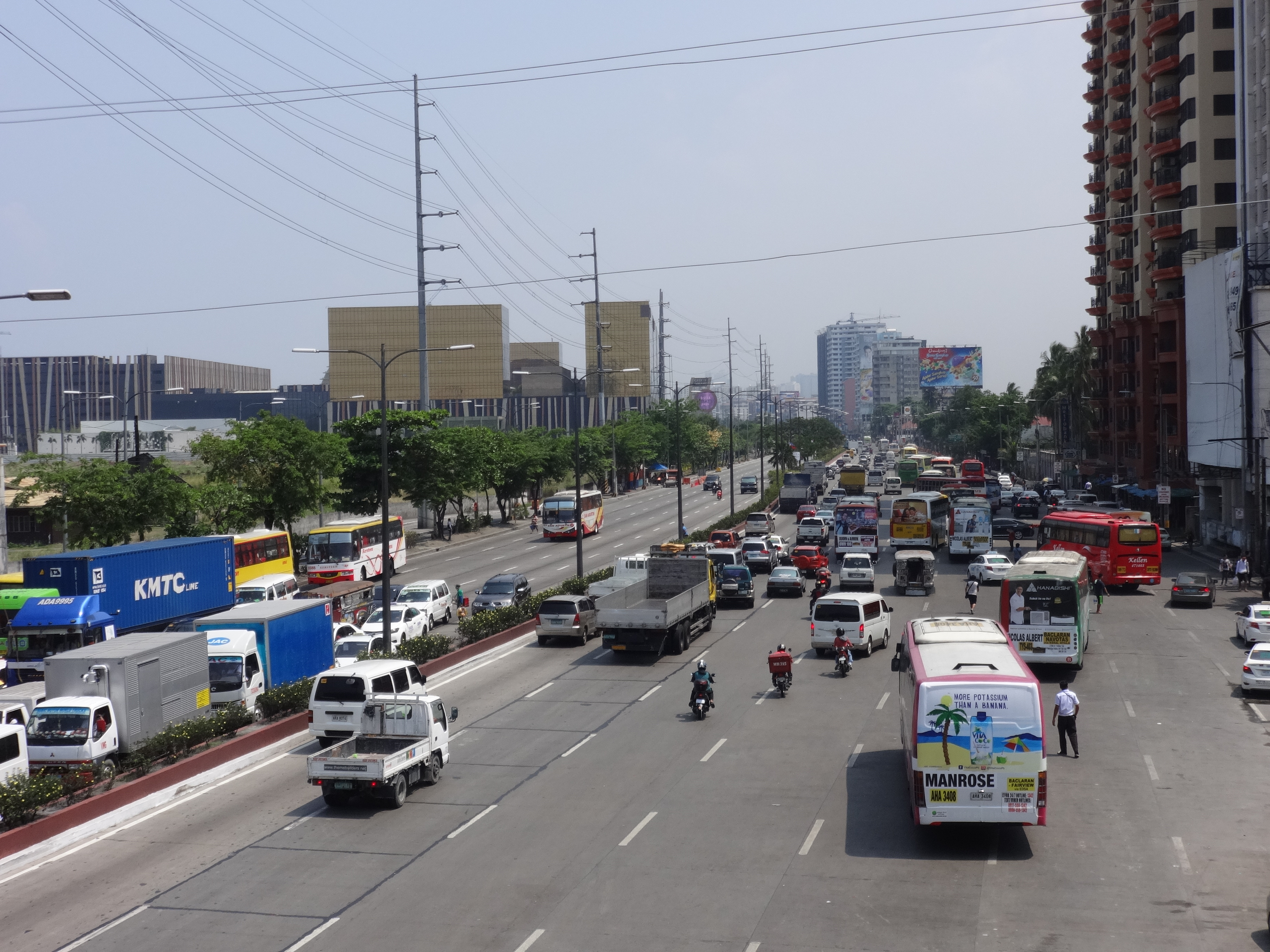 Roxas Boulevard (near NAIA Road) in Paranaque